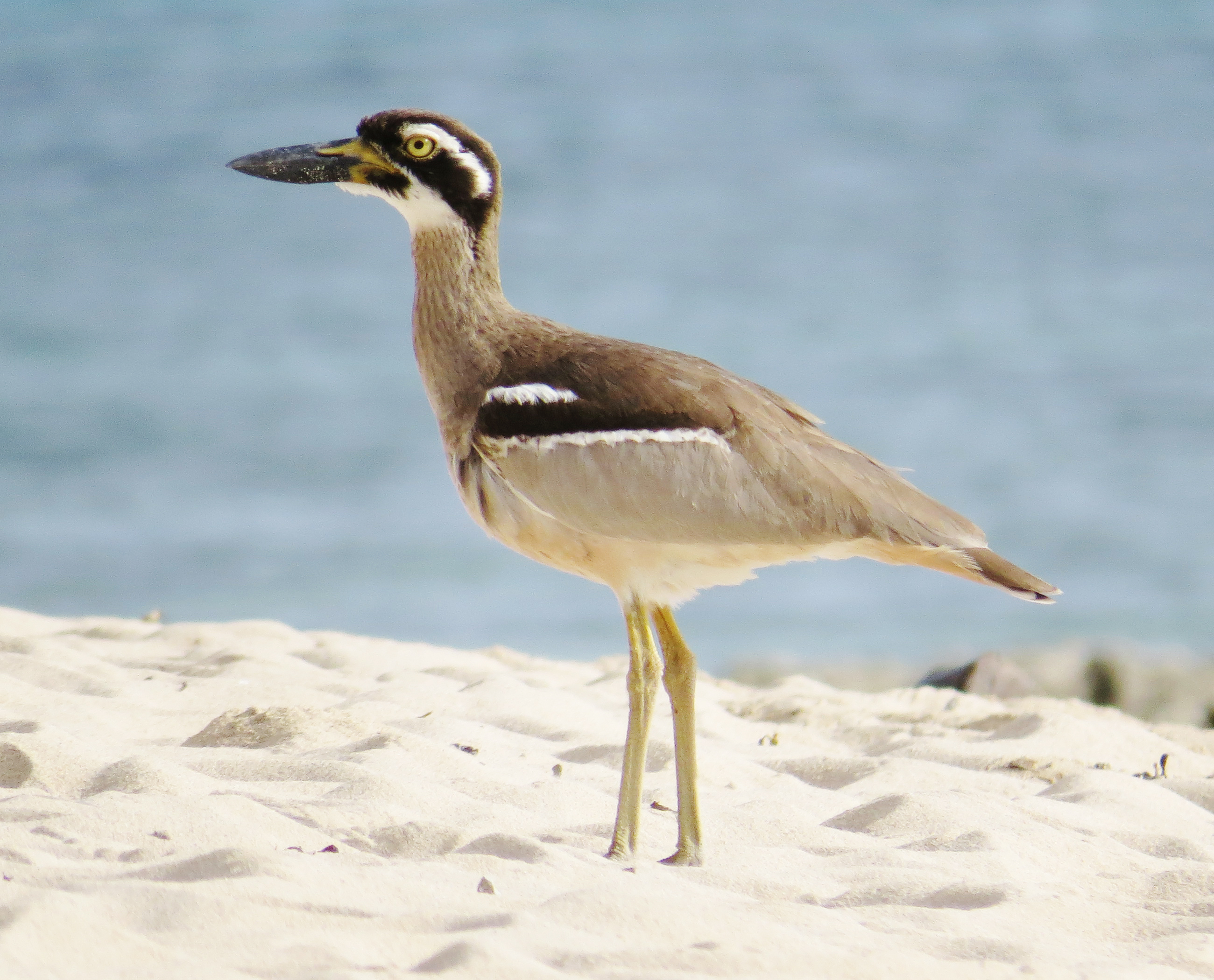 Beach stone-curlew taken on Green Island off Cairns, north Queensland.